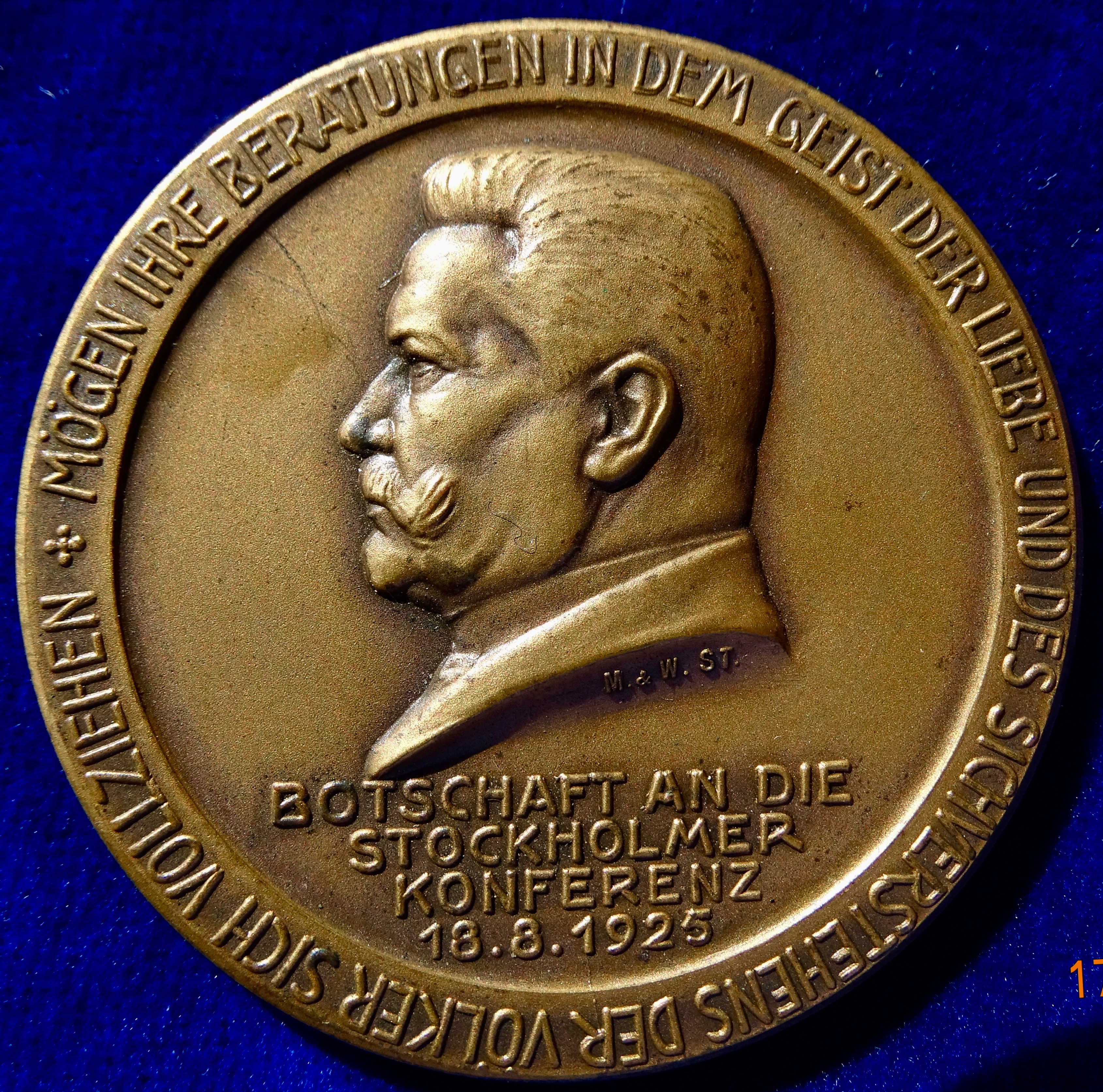 German Medal 1925, Opening of the Stockholm Universal Christian Conference in Sweden. Bronze medallion, d. = 51 mm. Hindenburg, Paul v. Beneckendorff und v. H., 1847 Posen, Duchy of Posen, Prussia (now Poznań, Poland) - 1934 Neudeck, East Prussia, today Ogrodzieniec, Poland. 4 lines below portrait l.: "BOTSCHAFT AN DIE STOCKHOLMER KONFERENZ 18. 8. 1925", surrounding: "+ MÖGEN IHRE BERATUNGEN IN DEM GEIST DER LIEBE UND DES SICHVERSTEHENS DER VÖLKER SICH VOLLZIEHEN +"/ 5 lines divided by l. standing Germania blowing a herald trumpet, and standing on a snake symbolising the Treaty of Versailles: "PSALM 4,3. TILGT DEN VERSAILLER VERTRAG DANN ERST WIRD' S FRIEDE UND TAG". In a radiant globe below: "PSALM 91". Surrounding: "+ O LAND! LAND! LAND! HÖRE DES HERRN WORT + DARUM LEGET DIE LÜGE AB UND REDET DIE WAHRHEIT +". Condition: Almost UNCIRCULATED.